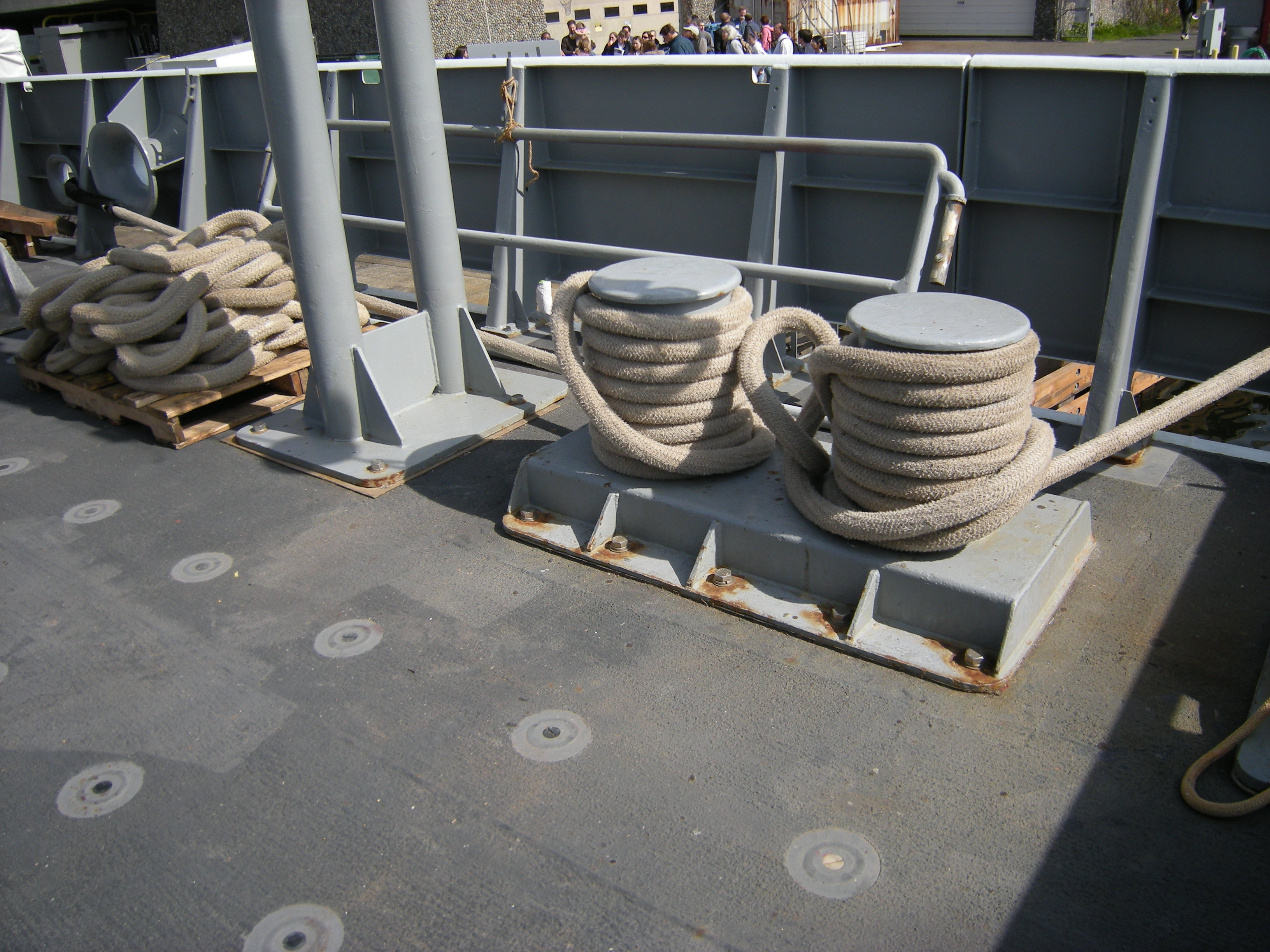 Bollards and hawsers of the research vessel RV Thomas G. Thompson, photographed at its dock at the University of Washington, Seattle, Washington, USA.